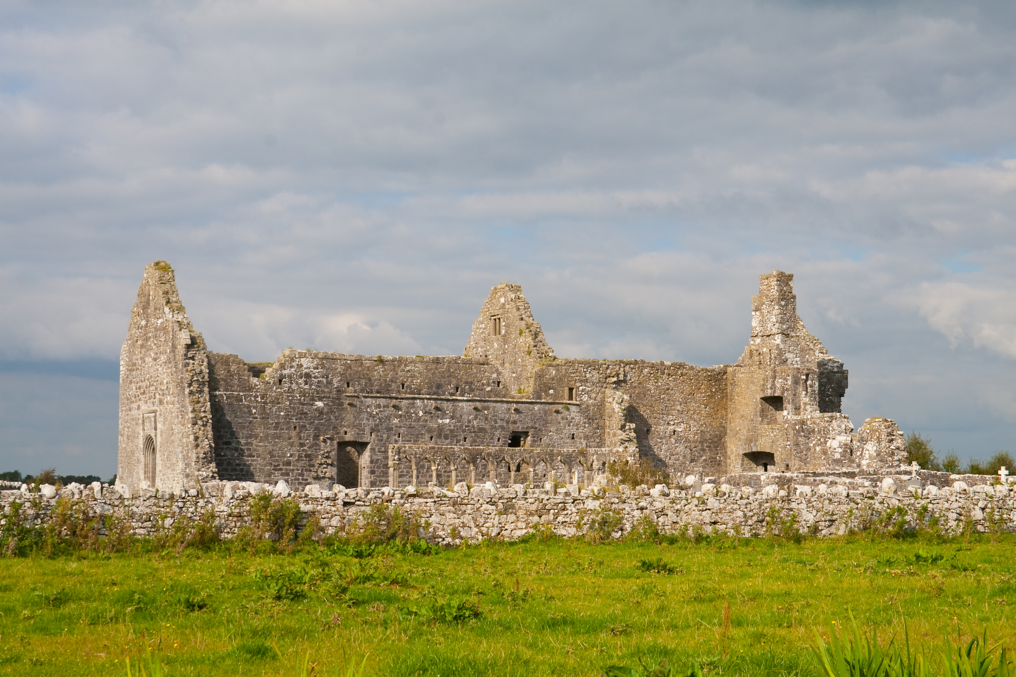 Clontuskert Priory, County Galway, Ireland South range of Clontuskert Priory.